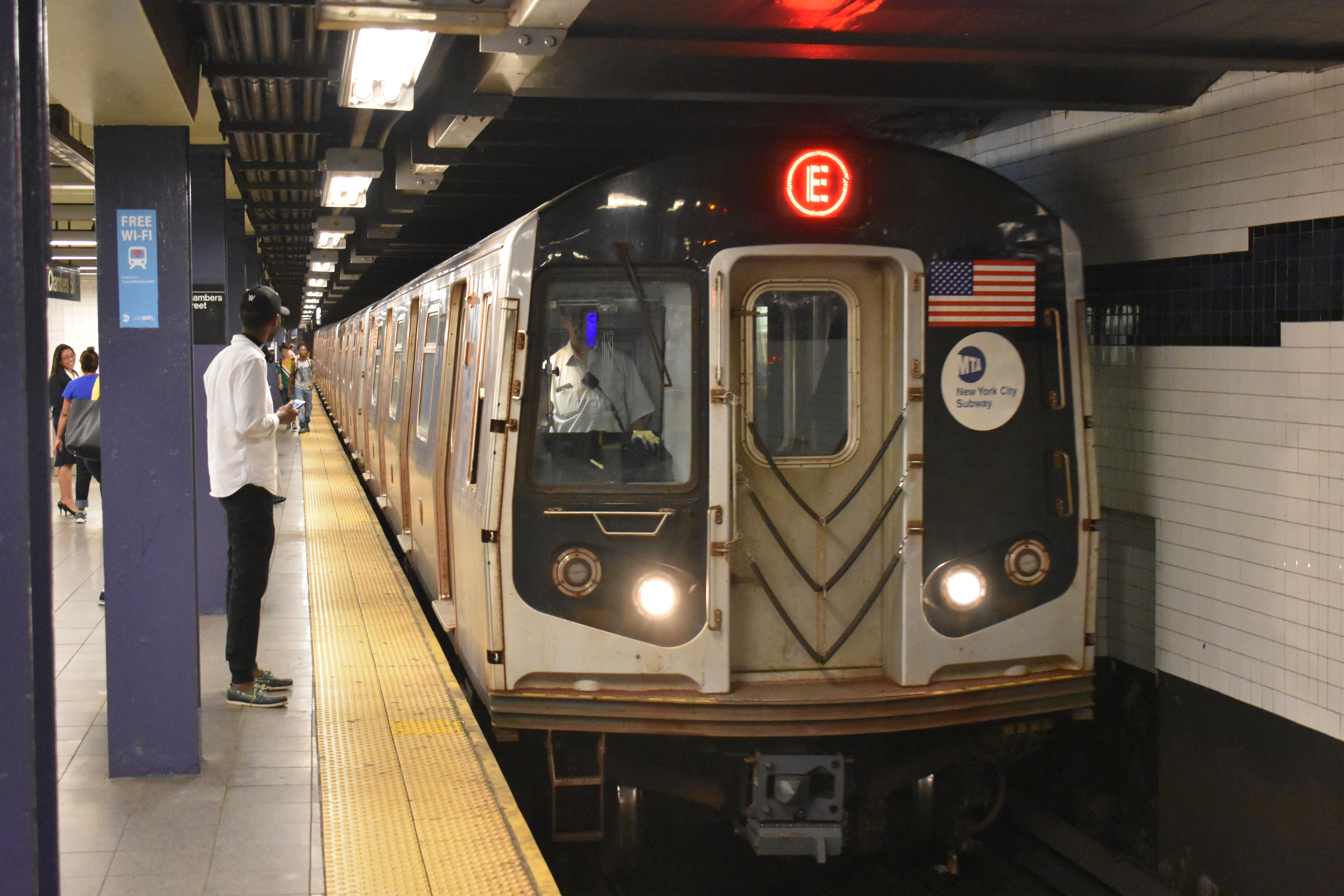 A train made up of R160A cars enters World Trade Center, ready to terminate at the station